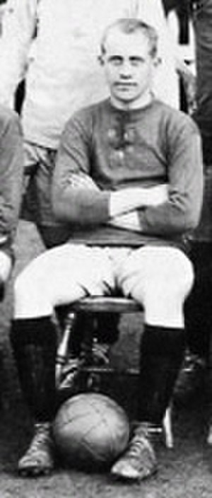 Swedish footballer Knut "Knutte" Nilsson in 1914. In lineup before game against England, 10th of June.